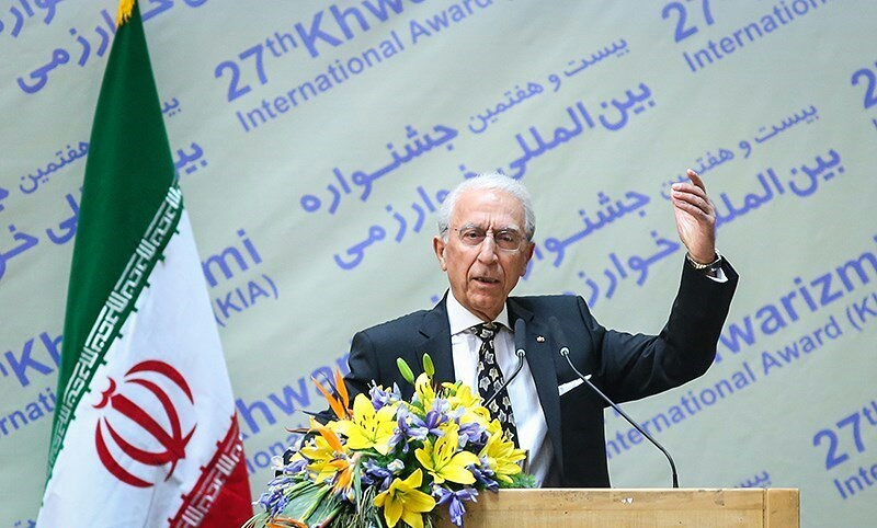 Majid Samii - 2014